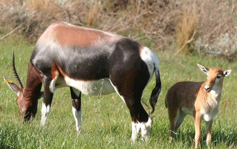 Helderberg Nature Reserve.Cape Town. South Africa. Photo of resident Bontebok.